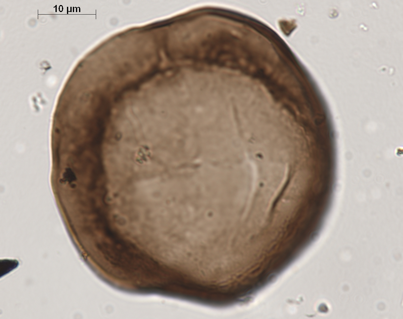 Cryptospore monad (Gneudnaspora divellomedia)